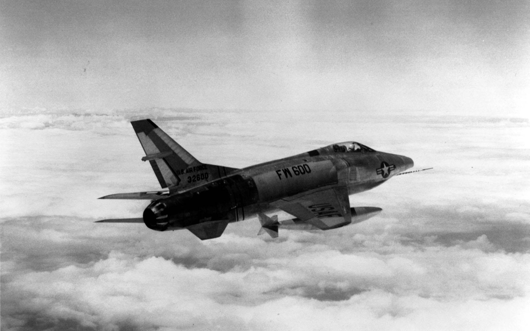 A North American RF-100A Slick Chick in flight. The serial number on this aircraft is incorrect. 53-2600 was not an F-100A, but rather a F-89D serial number. Six almost complete F-100As were modified as unarmed photographic reconnaissance aircraft in 1954. The RF-100A serials were 53-1545 to 53-1548, 53-1551, and 53-1554.